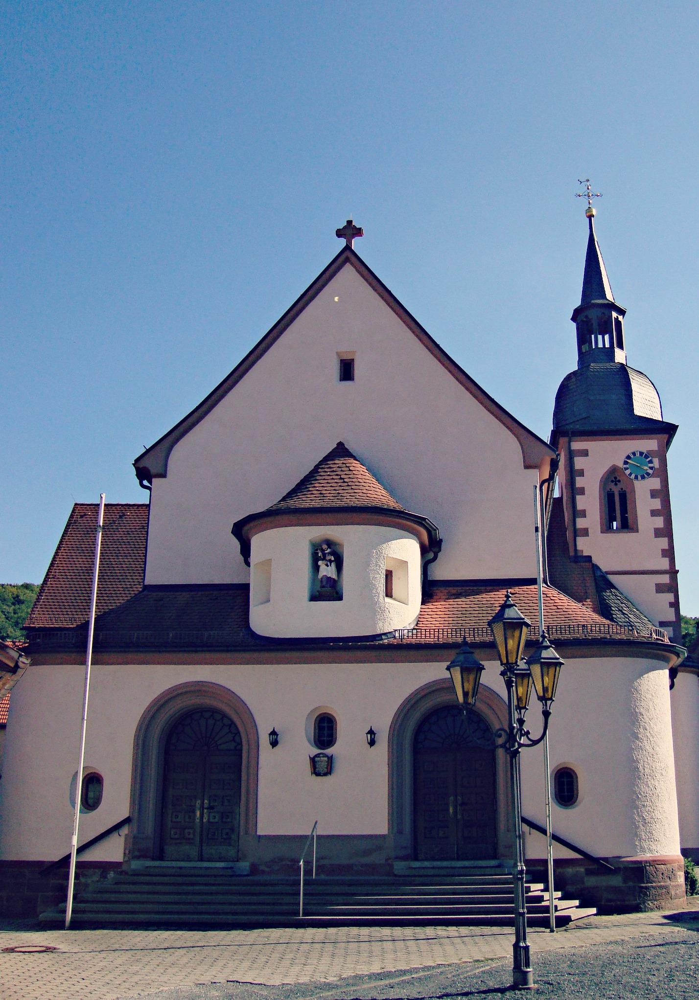 Catholic parish chursh St. MartinThis is a photograph of an architectural monument.